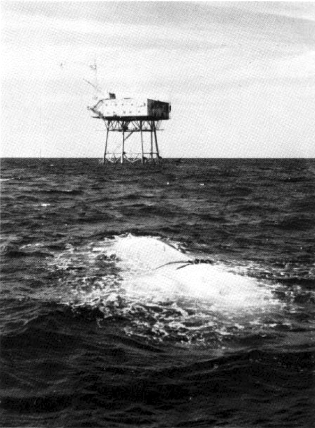 The U.S. Navy SEALAB I underwater habitat is lowered off the coast of Bermuda to a depth of 58 m (192 feet of seawater (fsw)) below the sea's surface, in 1964. The Argus Island Tower is visible in the background.